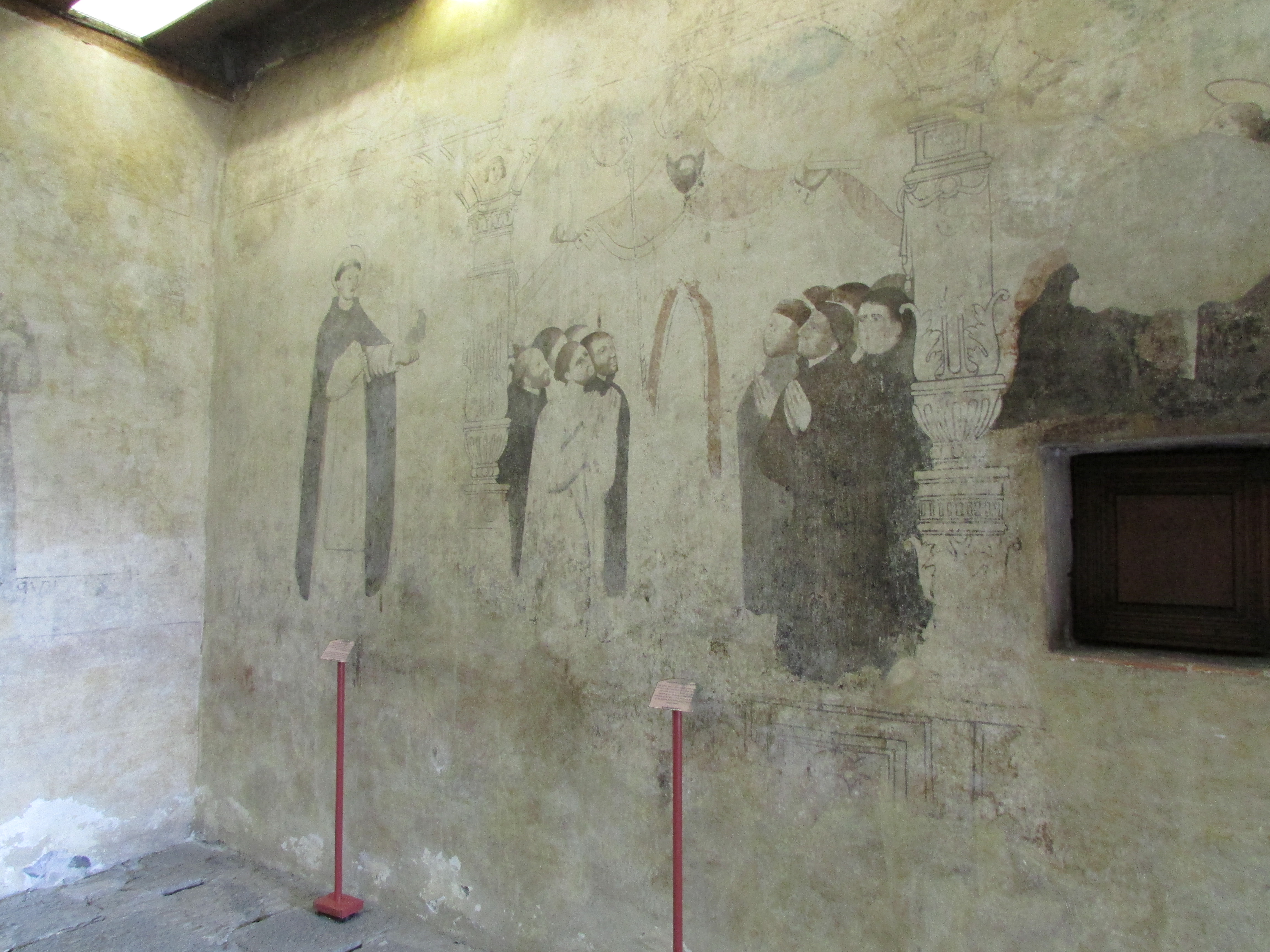 Friars, a restored mural at the Lower cloister of the San Juan Evangelista ex convent at Culhuacan